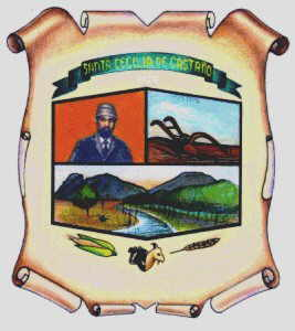 Escudo del municipio de Castaños, Coahuila